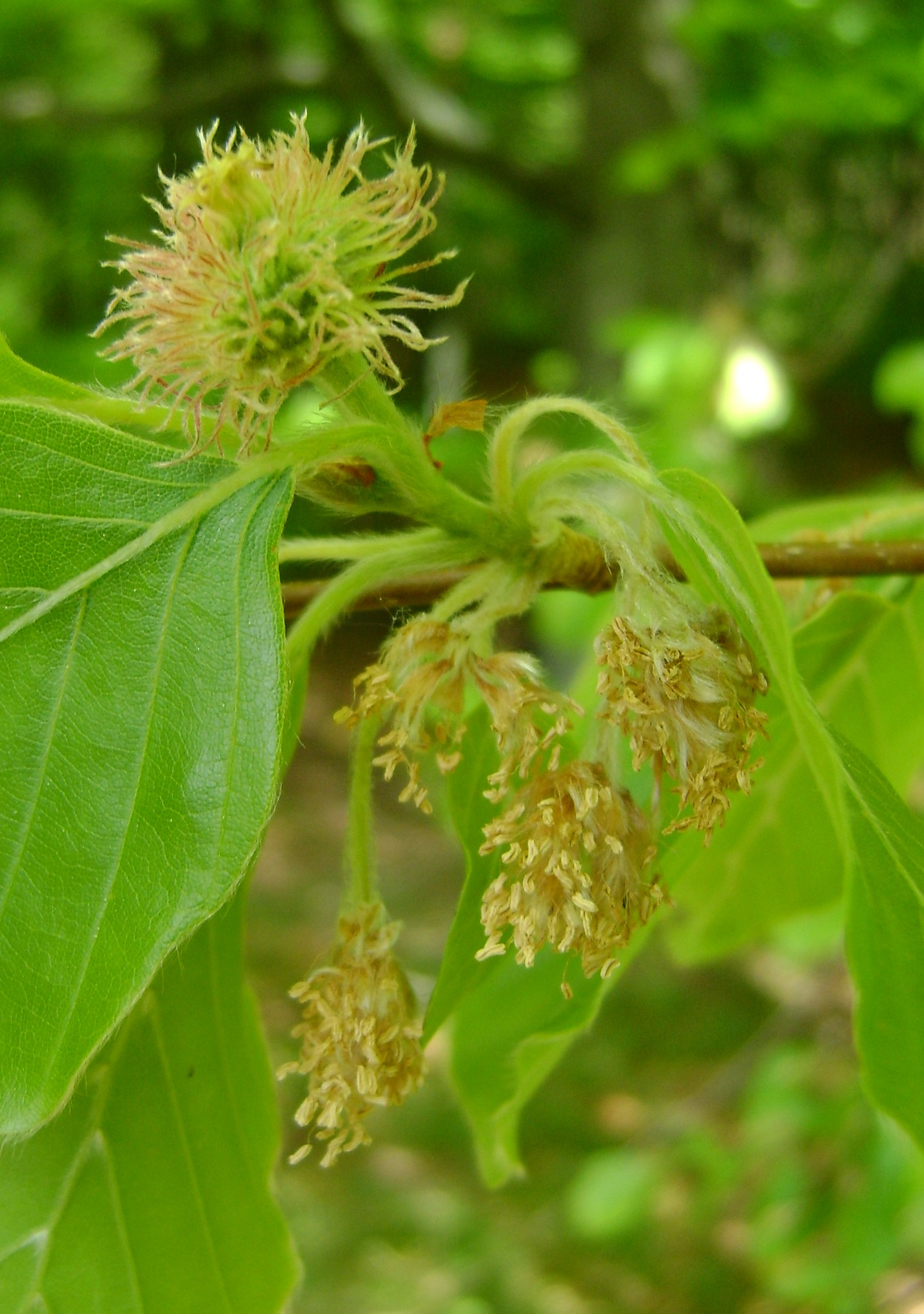 Inflorescences of Fagus sylvatica. Ustka (NW Poland)